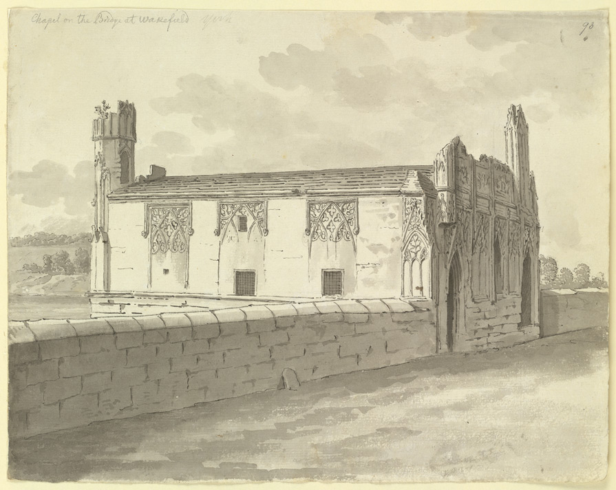 Chantry Chapel of St Mary the Virgin on Wakefield Bridge, West Riding, Yorkshire